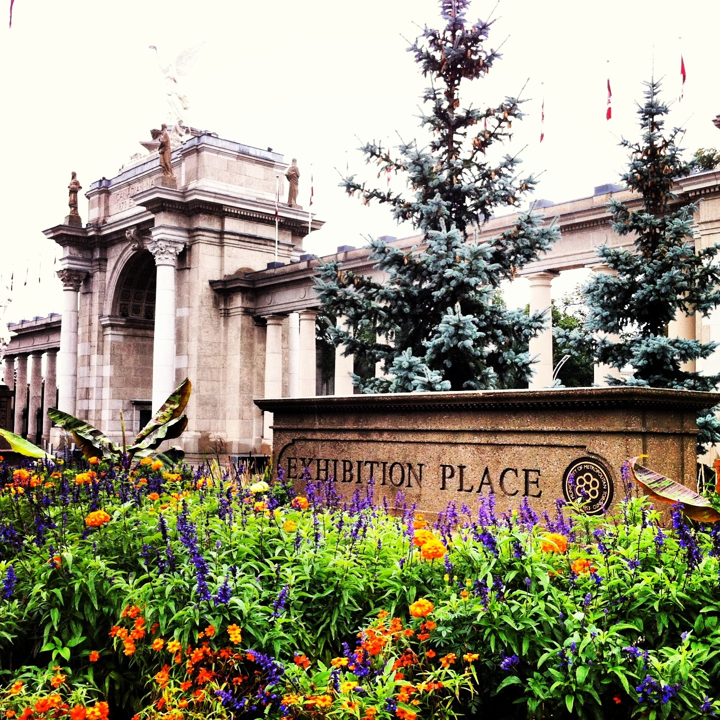 Entrance to the Exhibition Grounds.